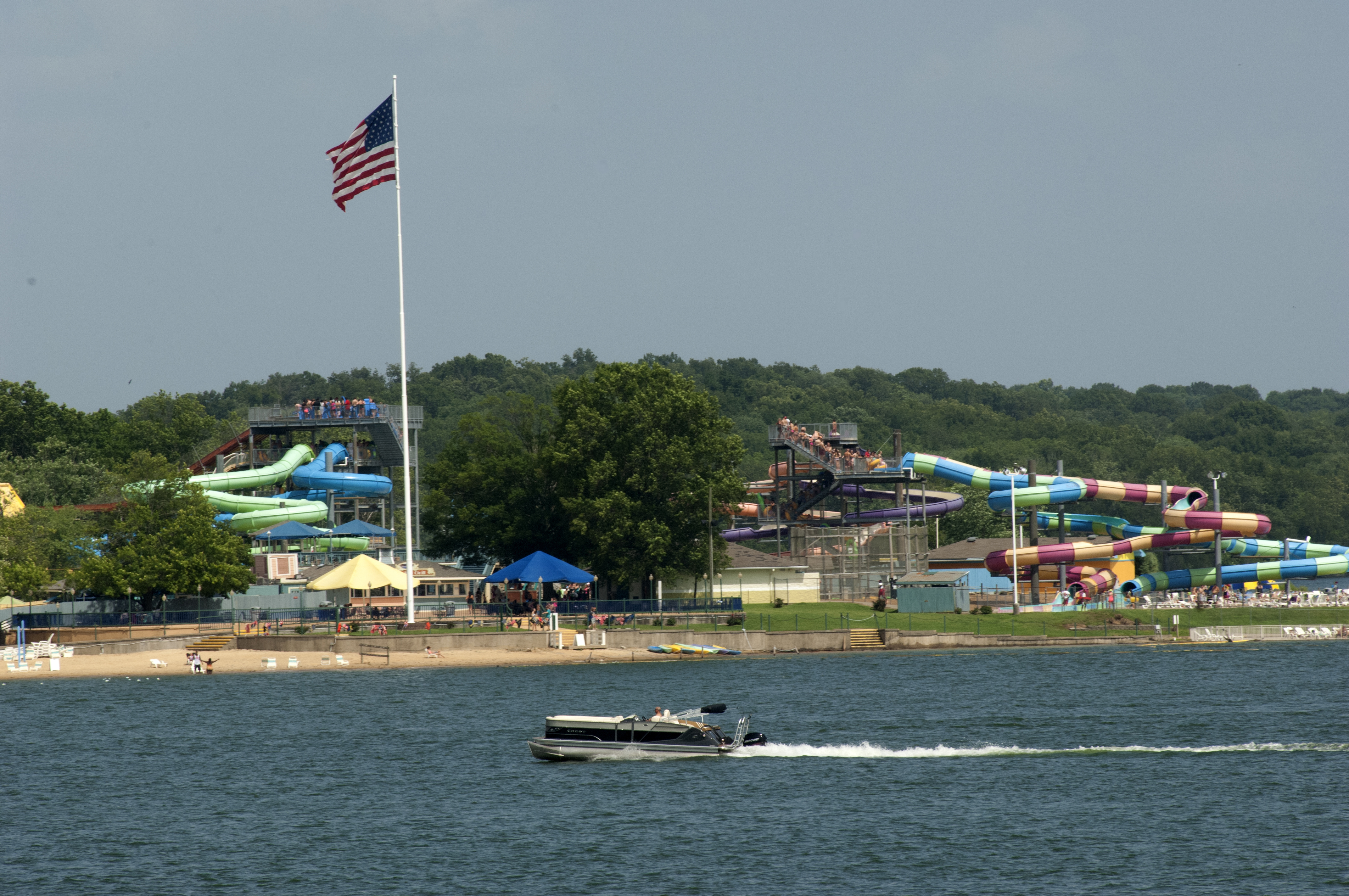 The U.S. Army Corps of Engineers Nashville District’s park rangers at J. Percy Priest Lake are partnering with Nashville Shores Lakeside Resort this summer to promote water safety. The Corps is setting up a booth every Friday from noon to 2 p.m. to pass out water safety goodies and to talk with families about wearing life jackets when recreating at the park and lake. (USACE photo by Leon Roberts)